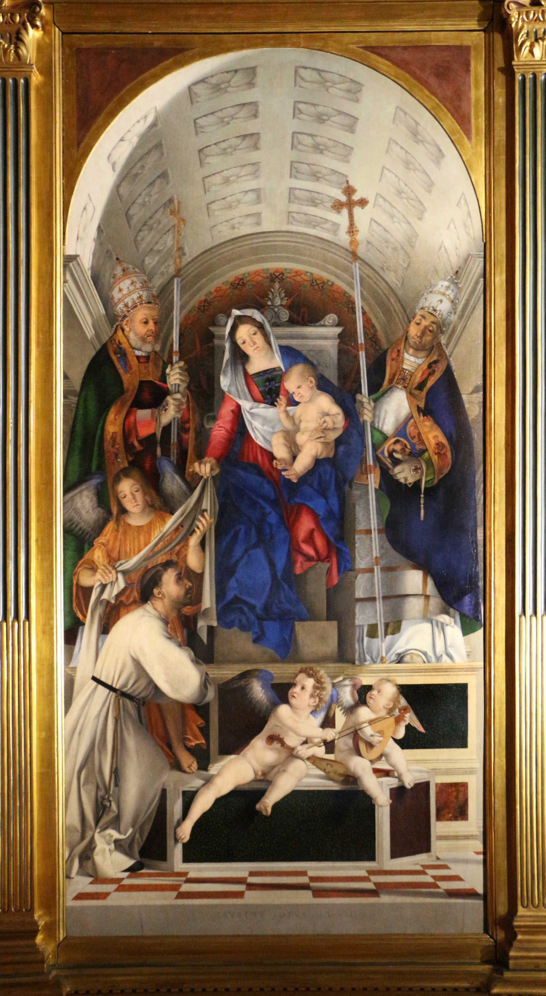 Recanati Altarpiece by Lotto